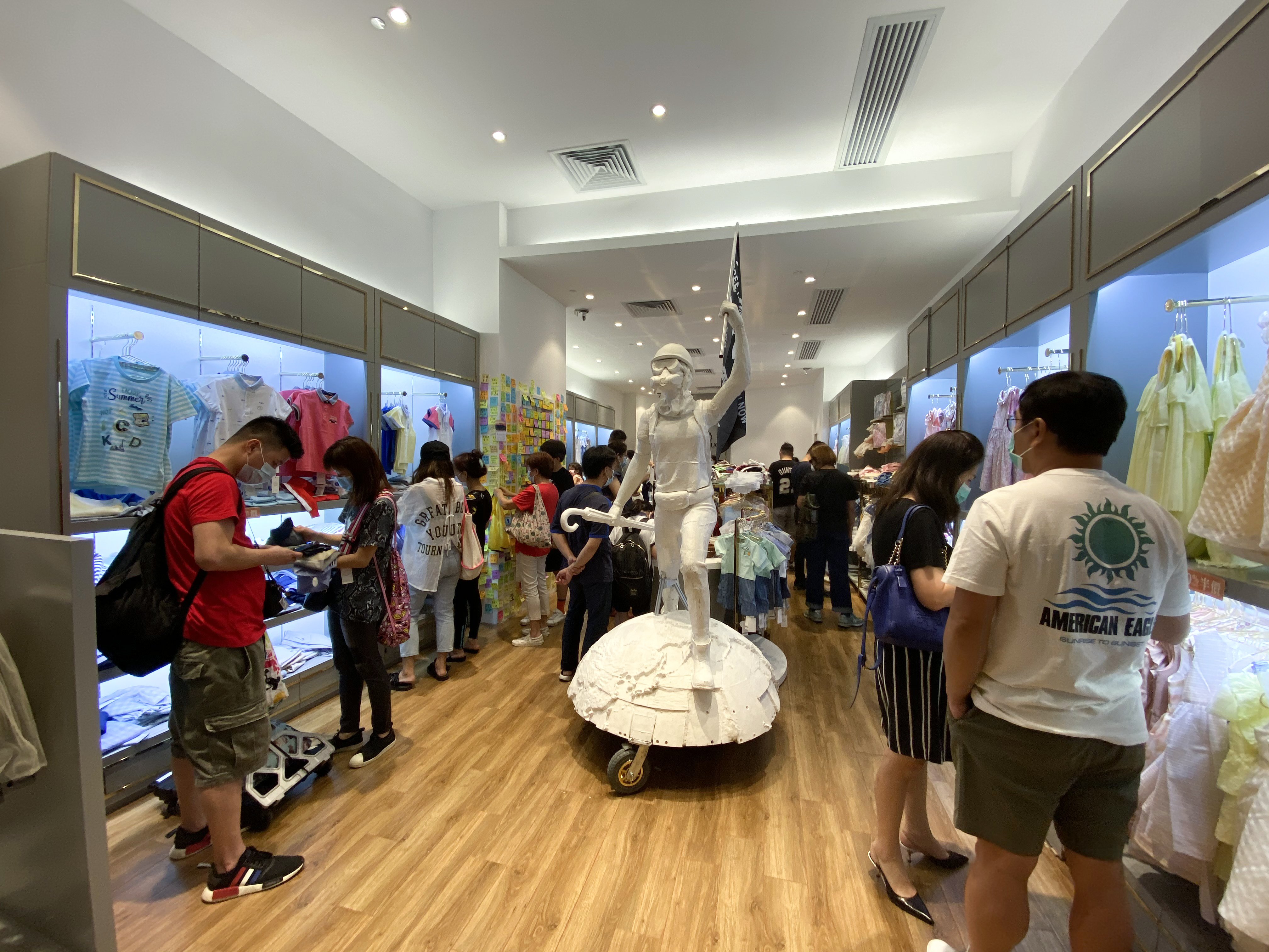 Chickeeduck D PARK Store interior